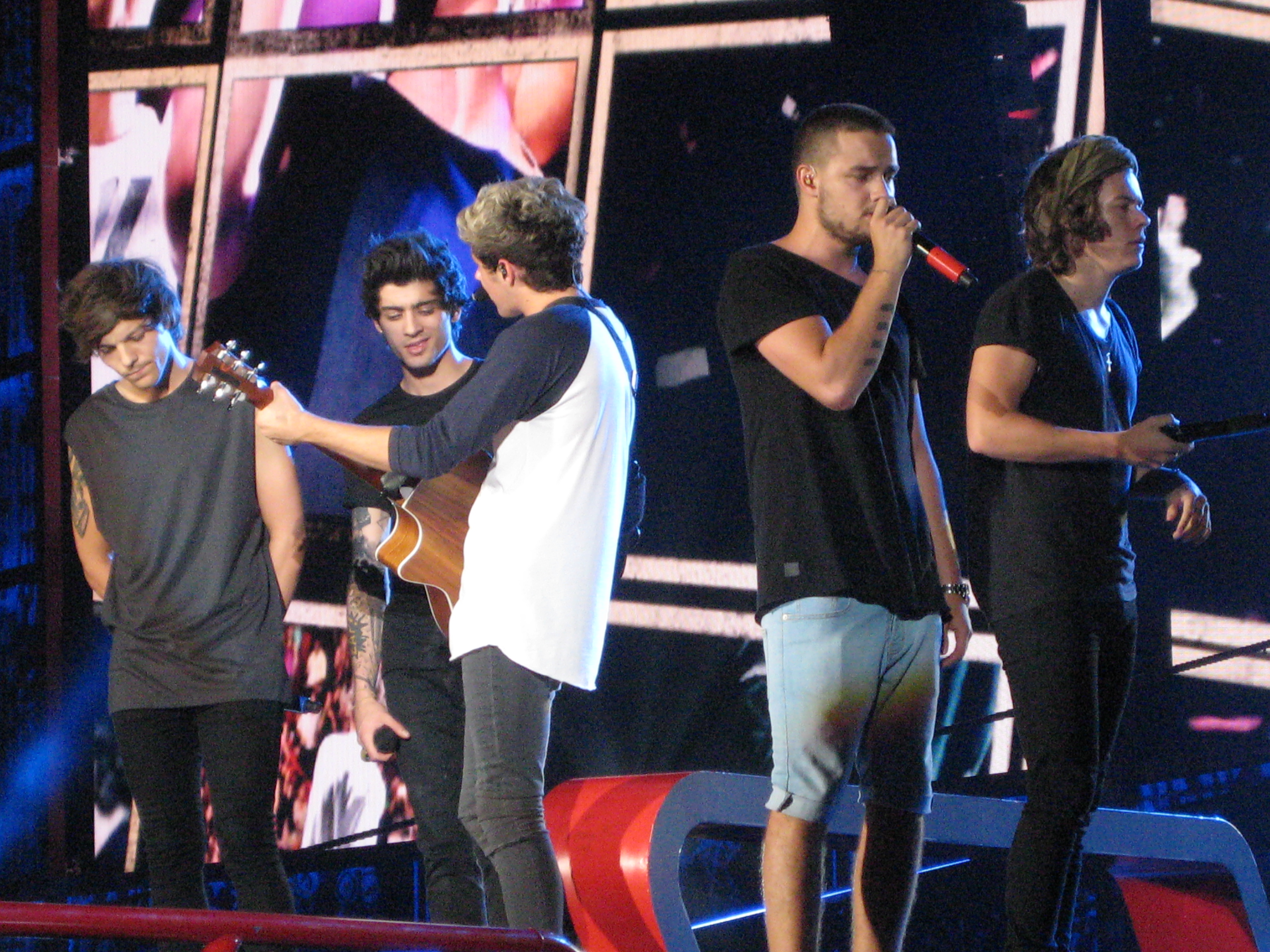 One Direction "Where We Are Tour" 2014.